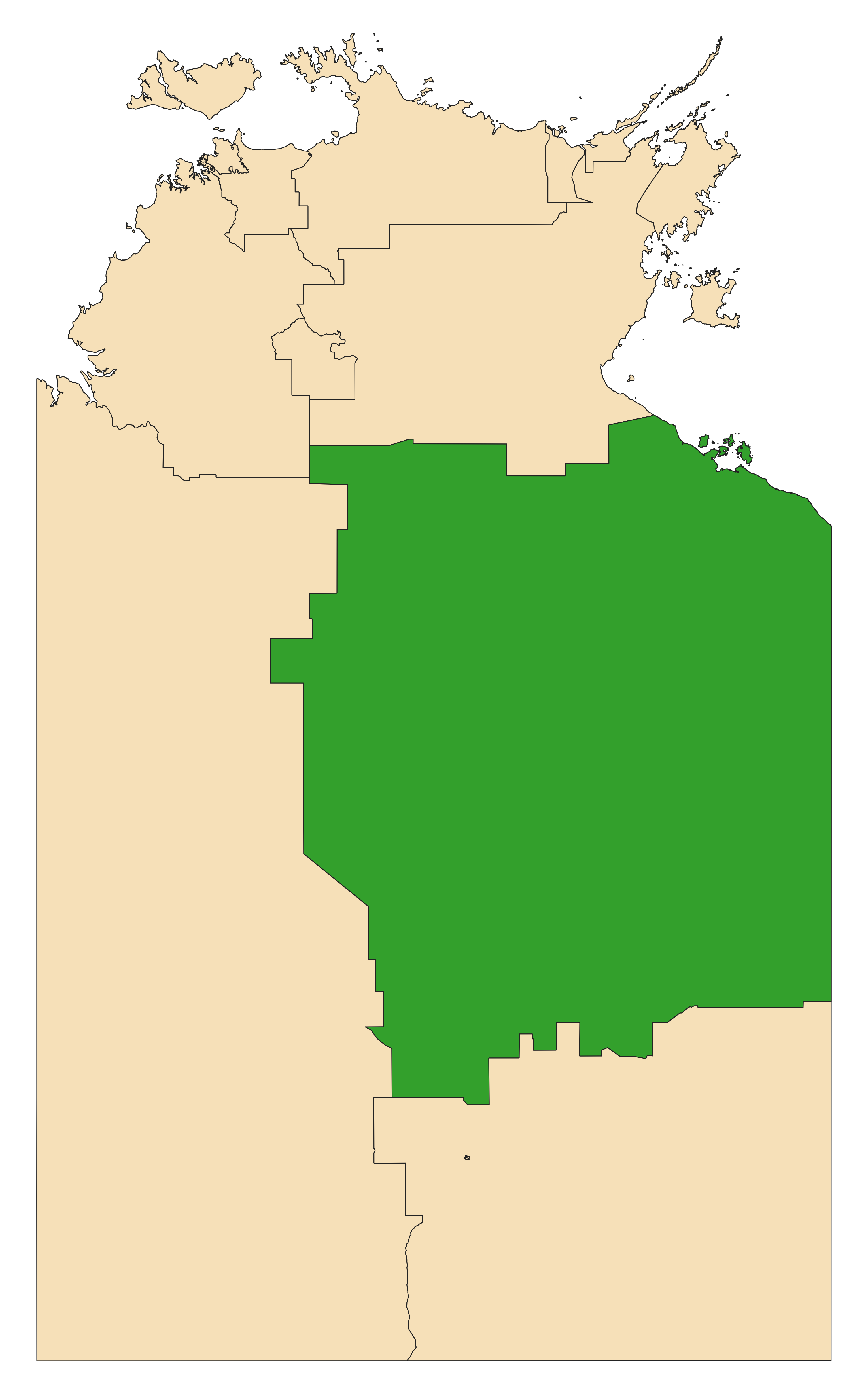 Location of the electoral division of Barkly (dark green) in the Northern Territory at the 2020 Northern Territory election